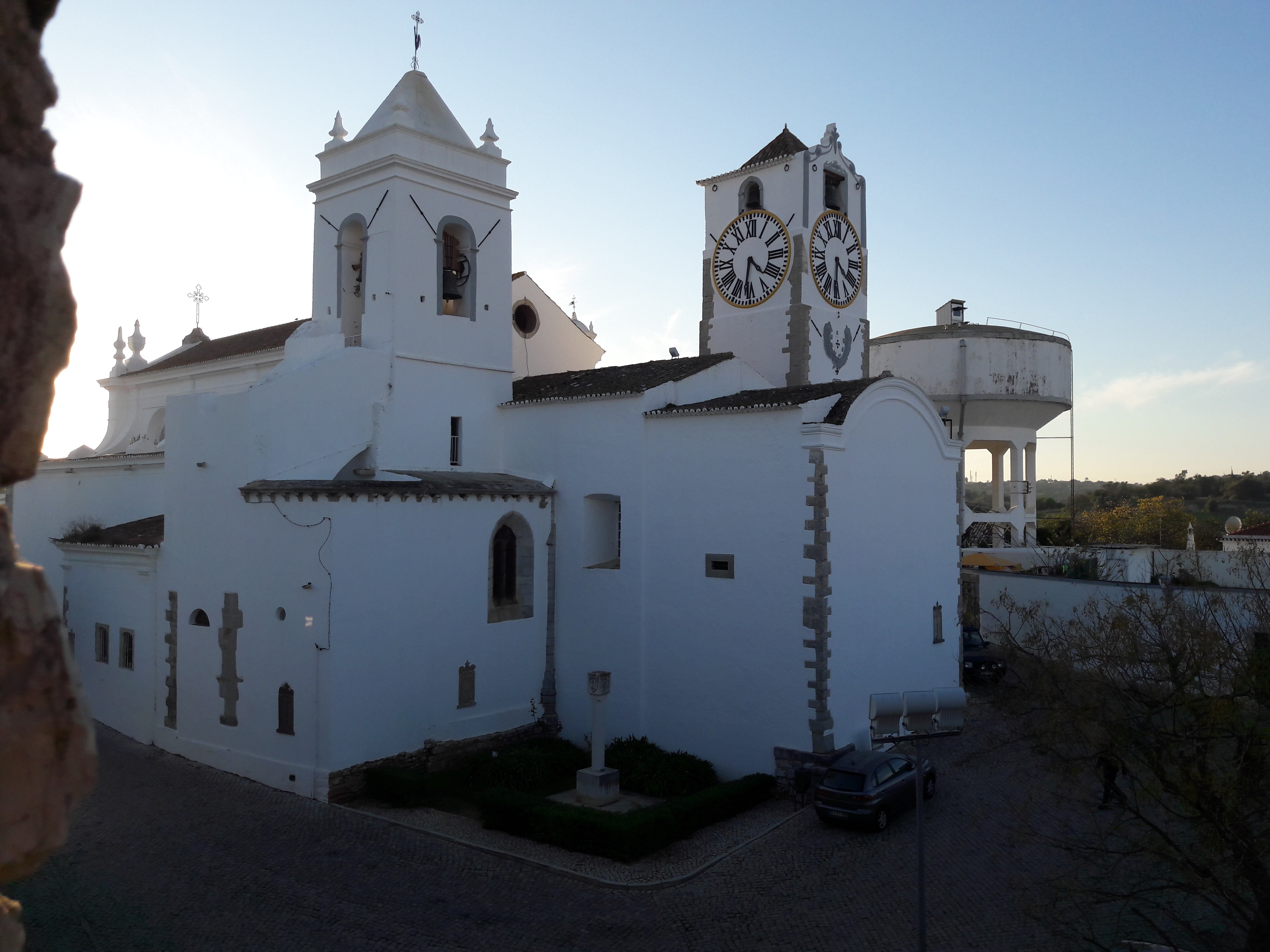 Santa Maria do Castelo church, in Tavira, Algarve - Southern Portugal.